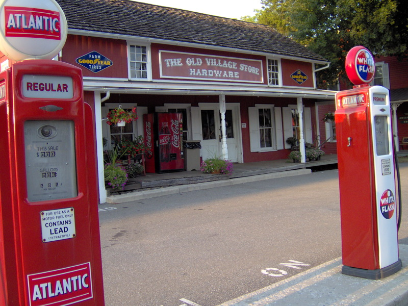 These must be empty, right? The local residents with funny beards and black hats are forbidden from consuming energy aren't they? So this must be a lure to attract passing traffic to the hardware store. A stranger down to his last drop of gas pulls in , relieved. Hipperty-hop over to the nozzle. Oops, it has been welded to the pump. Out comes the proprietor and says. "Well good day to you, sir. Can I interest you in some Stanley blades, or perhaps a few sheets of glasspaper? You never know when they might come in handy. "How about some gas, buddy?" "I don't think we sell that particular commodity sir. But we have some fine paraffin for your favorite lantern, or how about turpentine, it keeps these pumps very clean and sparkly... More observations on a daily basis from The Pisstakers